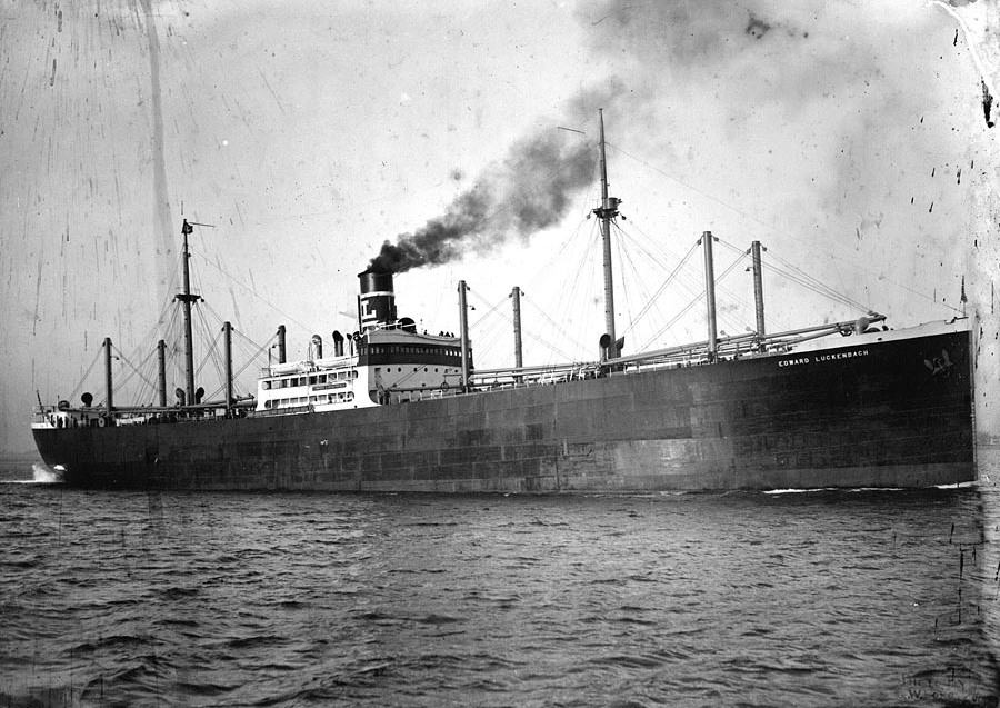 Cargo ship SS Edward Luckenbach at the time of her completion, prior to her US Navy service as cargo ship and troop transport USS Edward Luckenbach (ID-1662).